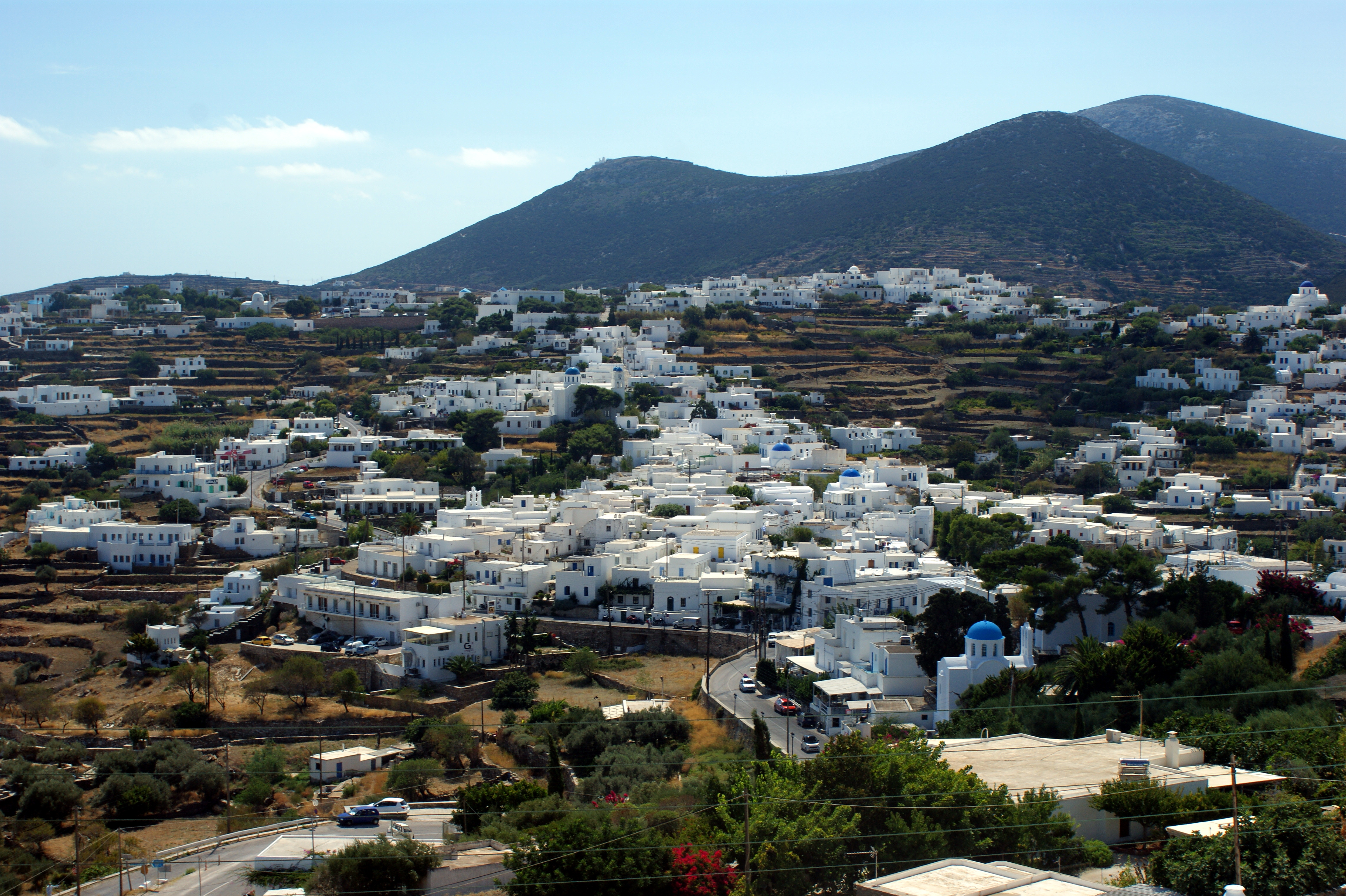 Village View